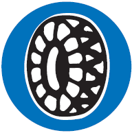 Luxembourg road sign diagram